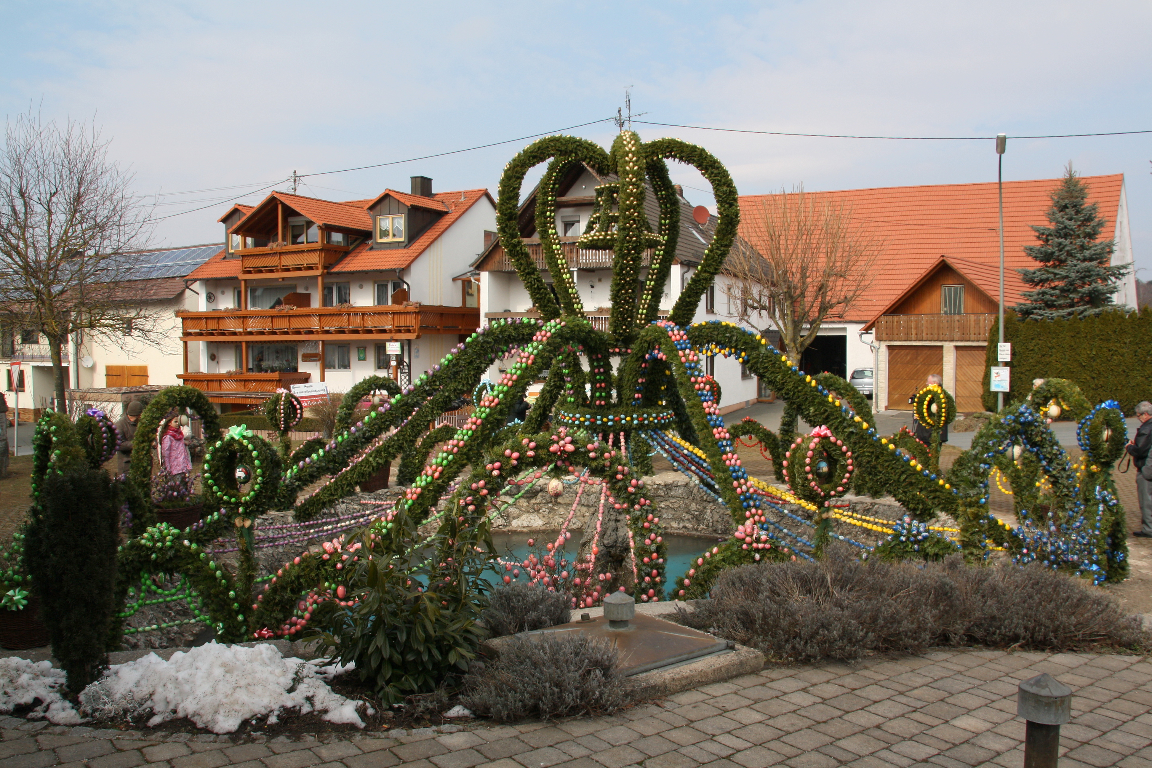 duitsland - bayern - oberfranken - fränkische schweiz - bieberbach - osterbrunnen